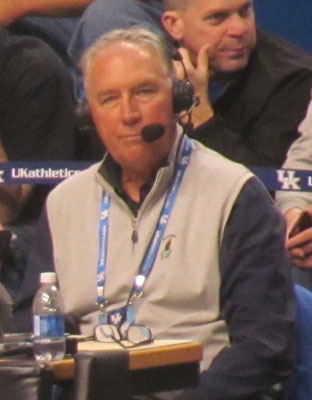 Mike Pratt broadcasting Kentucky's 2015 Blue-White scrimmage